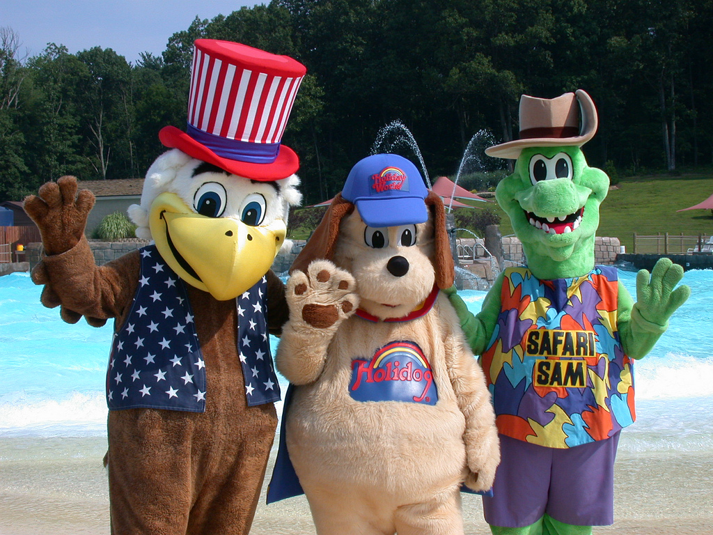 Three of Holiday World & Splashin' Safari's mascots. From left to right is George the Eagle, Holidog, and Safari Sam.